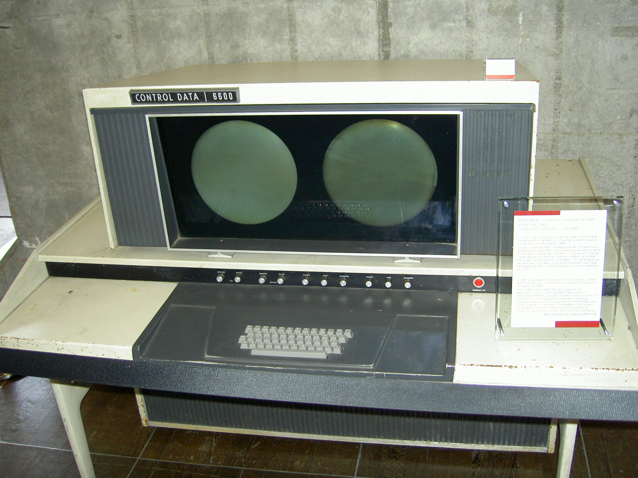 Console for CDC 6600 (1960-70).